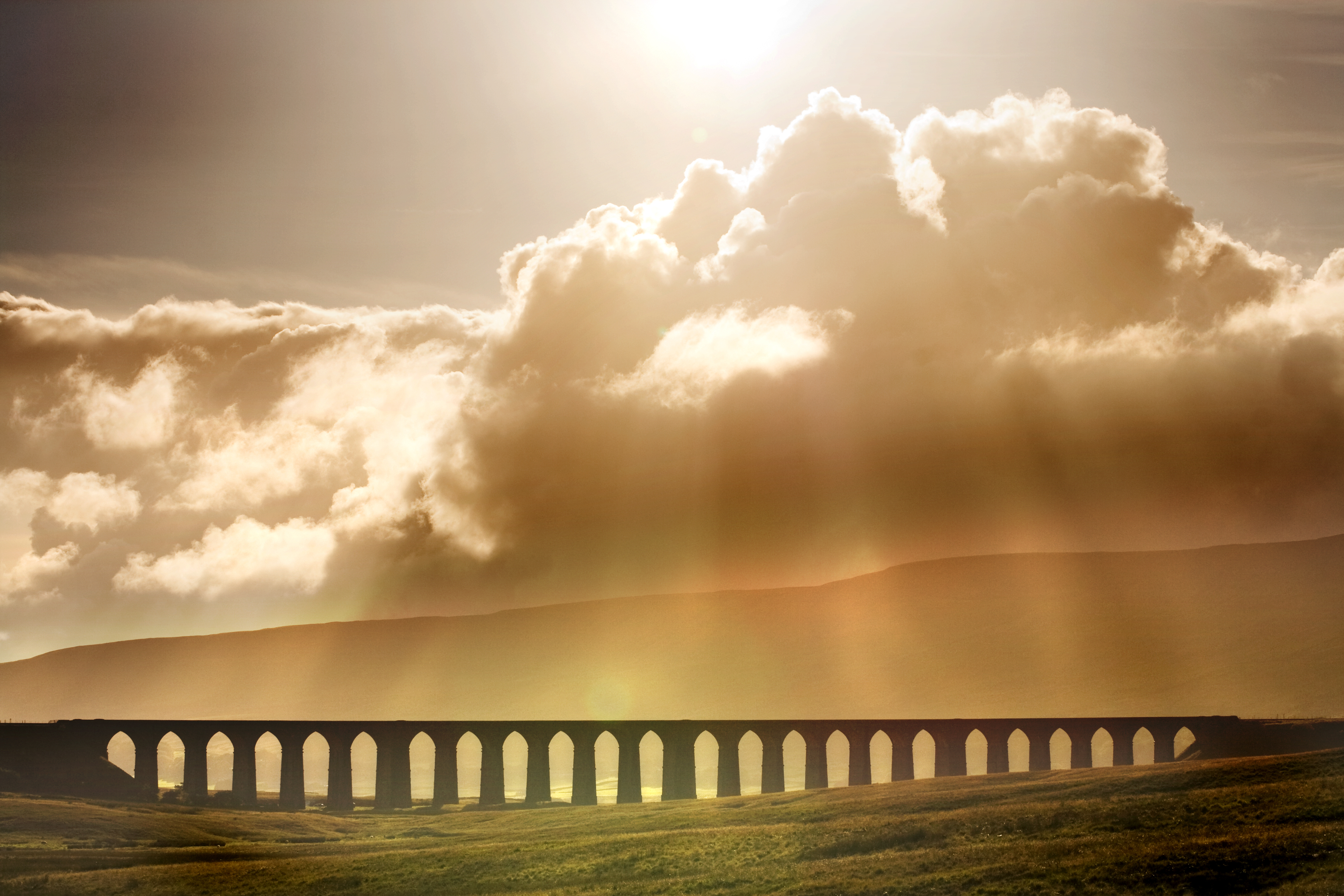 Ribblehead Viaduct is in North Yorkshire on the famous Leeds-Settle-Carlisle railway which passes through some of England's most stunning countryside.